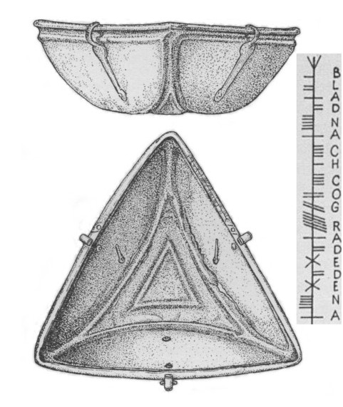 Drawing of the Ogham inscription BLADNACH COGRADEDENA on the Kilgulbin East Hanging Bowl.